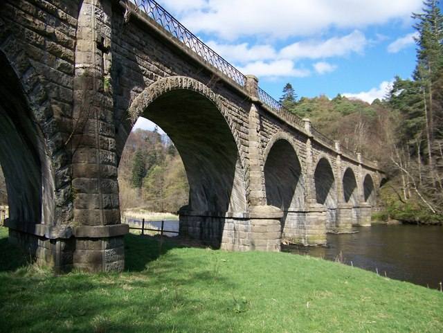 West end of Neidpath viaduct